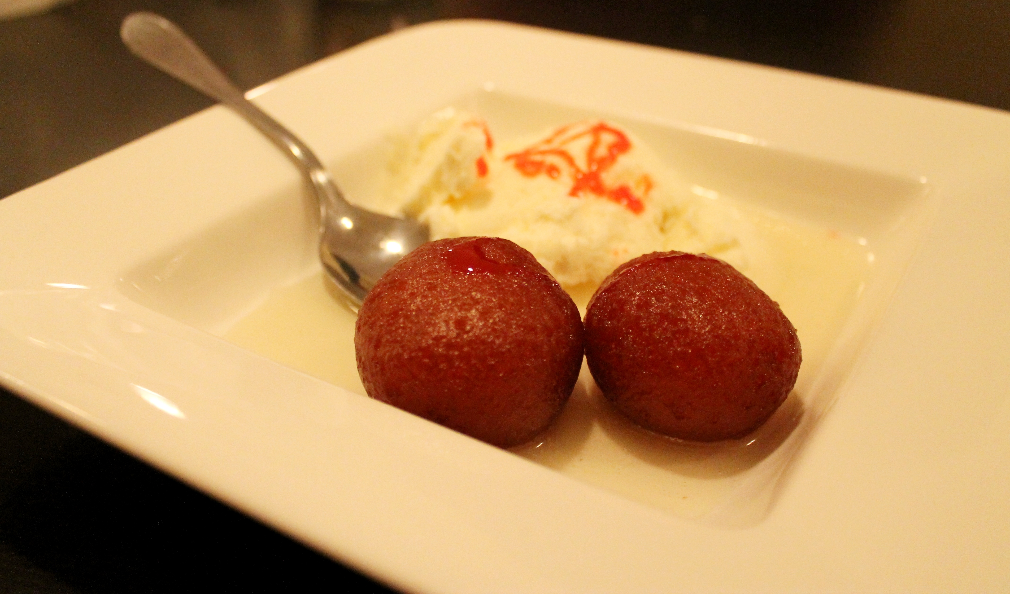 gulab jamun with Vanilla Ice cream served best after completing the meal.